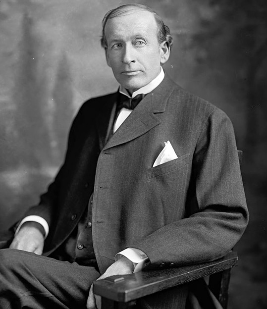 Moses Kinkaid, US Representative from Nebraska